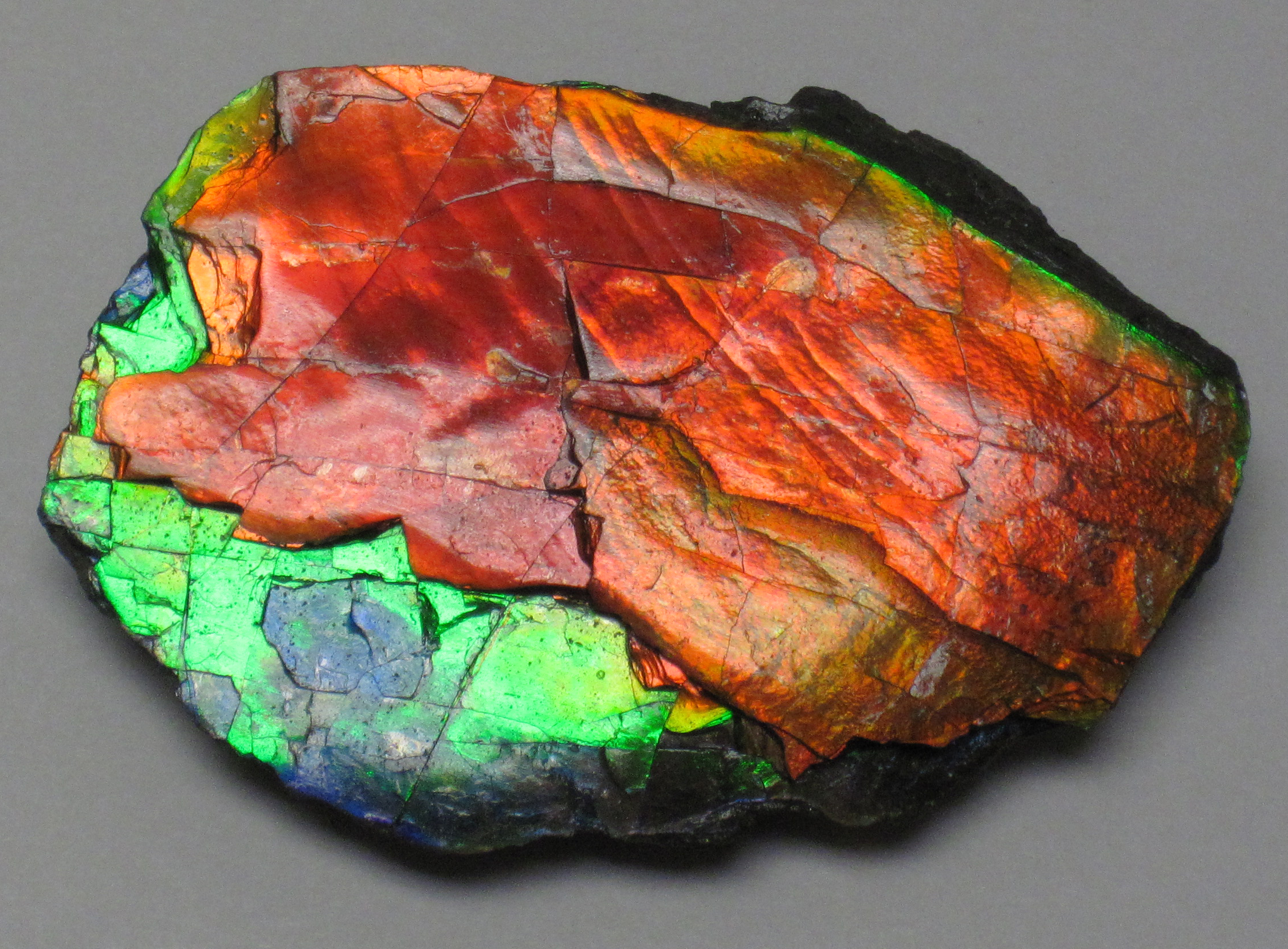 Ammolite (5.5 cm across at its widest) - diagenetically altered, iridescent Placenticeras ammonite shell material (nacreous aragonite, CaCO3) from the Upper Cretaceous Bearpaw Formation of the St. Mary River Valley, Alberta, Canada. Ammolite is biogenic gem material from Alberta, Canada. It has stunningly intense, iridescent rainbow colors. Ammolite is fossil shell material from Placenticeras ammonites. Ammonites are an extinct group of swimming squid-like organisms with planispirally coiled shells (the chambered nautilus in modern oceans is a distant relative of ammonites, but has a similar body plan). Ammonite shells were originally nacreous aragonite (“mother of pearl”) (CaCO3). Geologic studies have shown that ammolite gem material formed from slight diagenetic alteration of the original ammonite nacreous aragonite shell. Diagenesis has significantly intensified and brightened the play of colors. Ammolite is mined, polished, and treated by resin- or epoxy-impregnation to stabilize it. Very rarely, complete specimens of Placenticeras ammonite shells preserved in ammolite are recovered - such specimens are exceedingly valuable (for example, see figure 2 of Mychaluk et al., 2001). Name & classification: Placenticeras meeki or Placenticeras intercalare (Animalia, Mollusca, Cephalopoda, Ammonoidea, Ammonitina) Stratigraphy & age: Bearpaw Formation, Campanian Stage, upper Upper Cretaceous, ~70-75 Ma. Locality: mine in the St. Mary River Valley west or northwest of Welling and south-southwest of Lethbridge, southern Alberta, southwestern Canada. Reference cited: Mychaluk, K.A., A.A. Levinson & R.L. Hall. 2001. Ammolite: iridescent fossilized ammonite from southern Alberta, Canada. Gems & Gemology 37(1): 4-25.